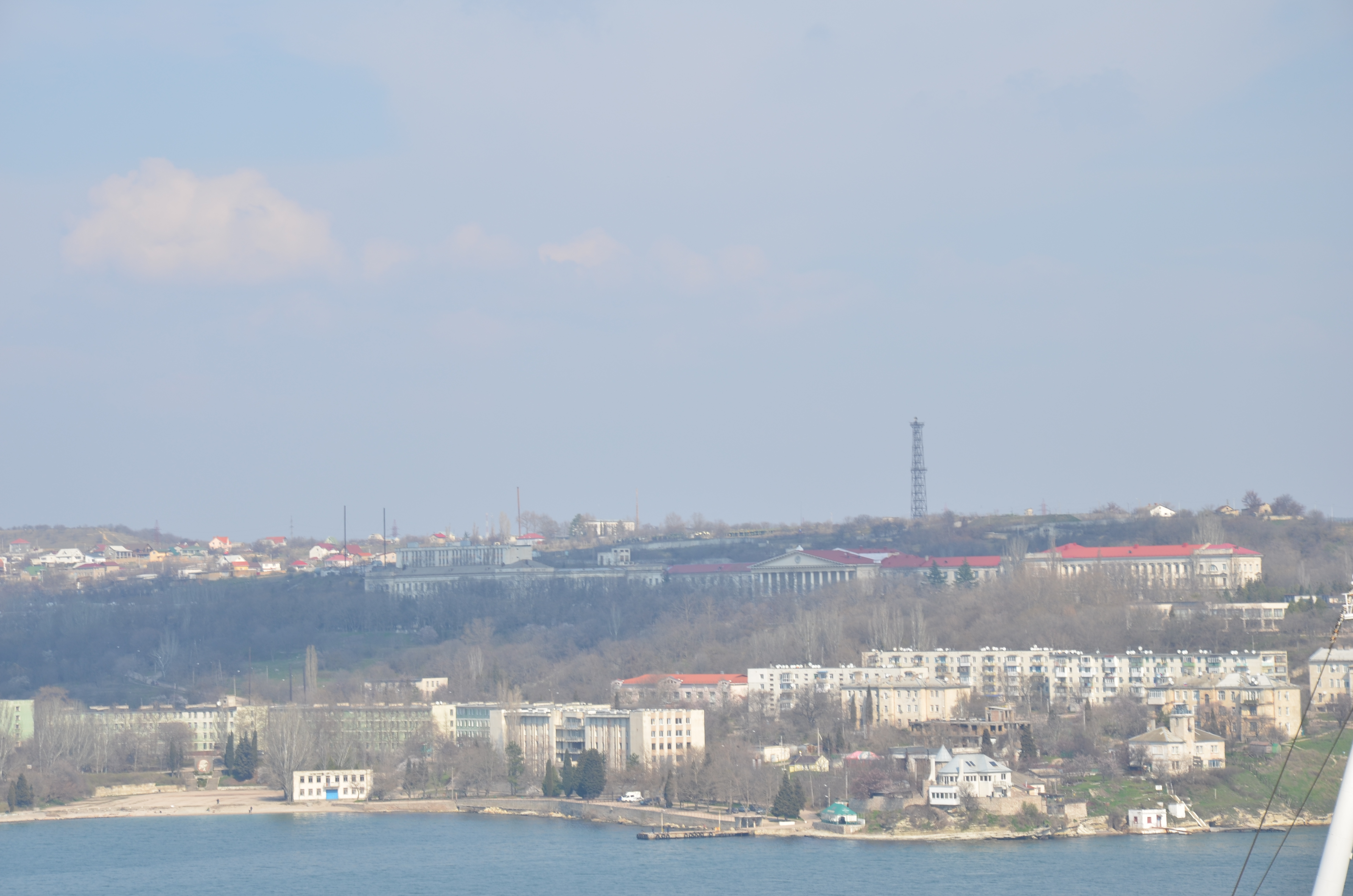 Sevastopol National University of Nuclear Energy and Industry